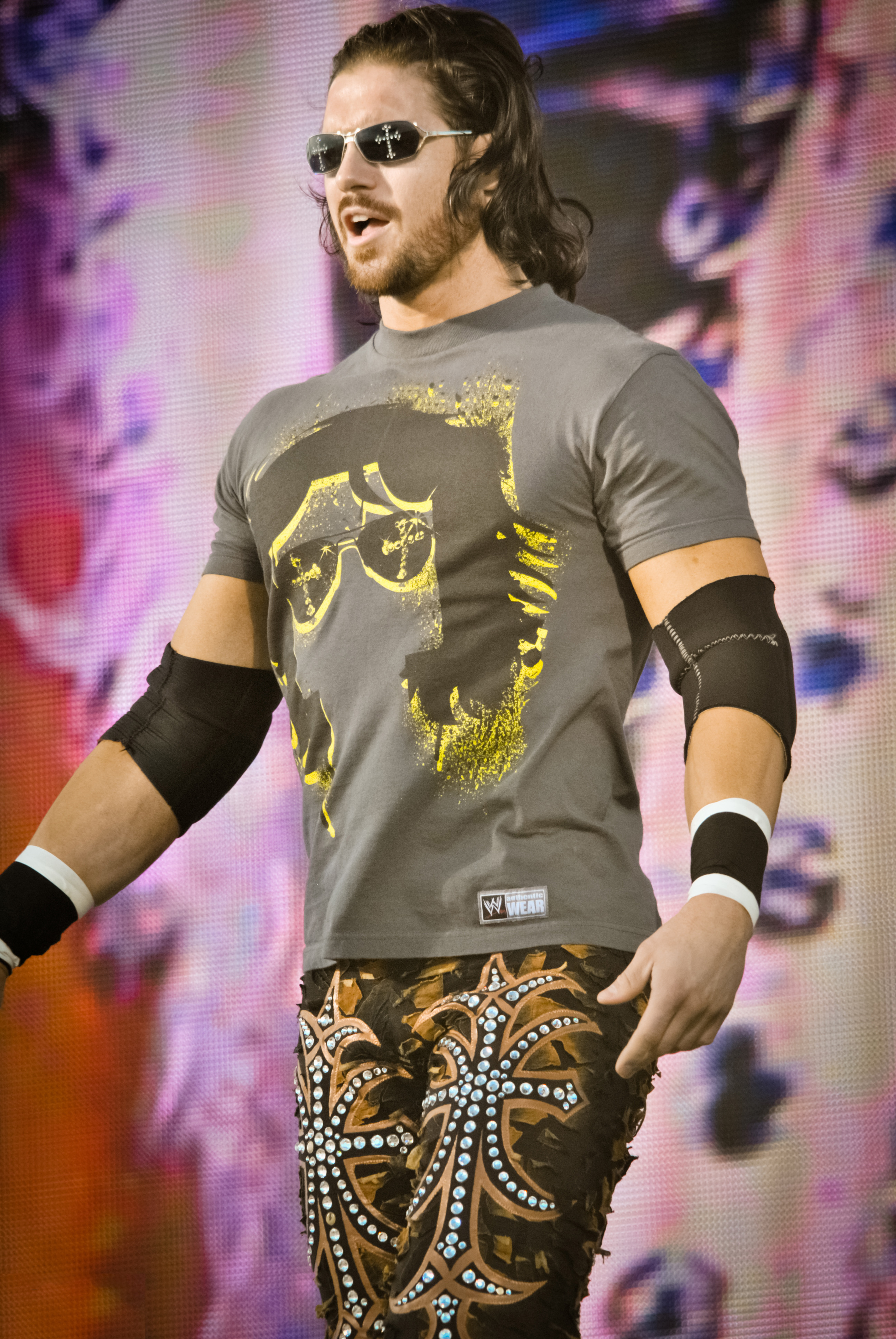 John Morrison at Fort Hood in Texas on December 11, 2010, for WWE's annual Tribute to the Troops show.